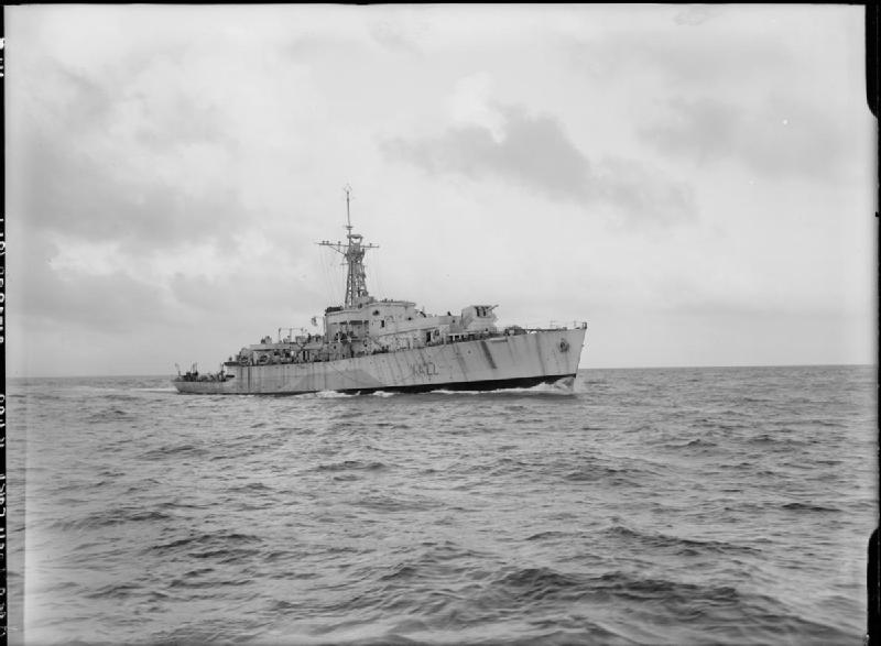 Photograph of British frigate HMS Loch Eck.